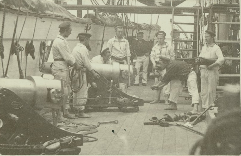 Loading gun on Prussian corvette Nymphe.